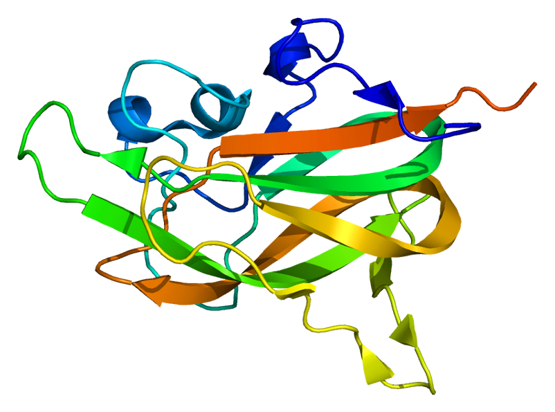 Structure of the NRP1 protein. Based on PyMOL rendering of PDB 1kex.